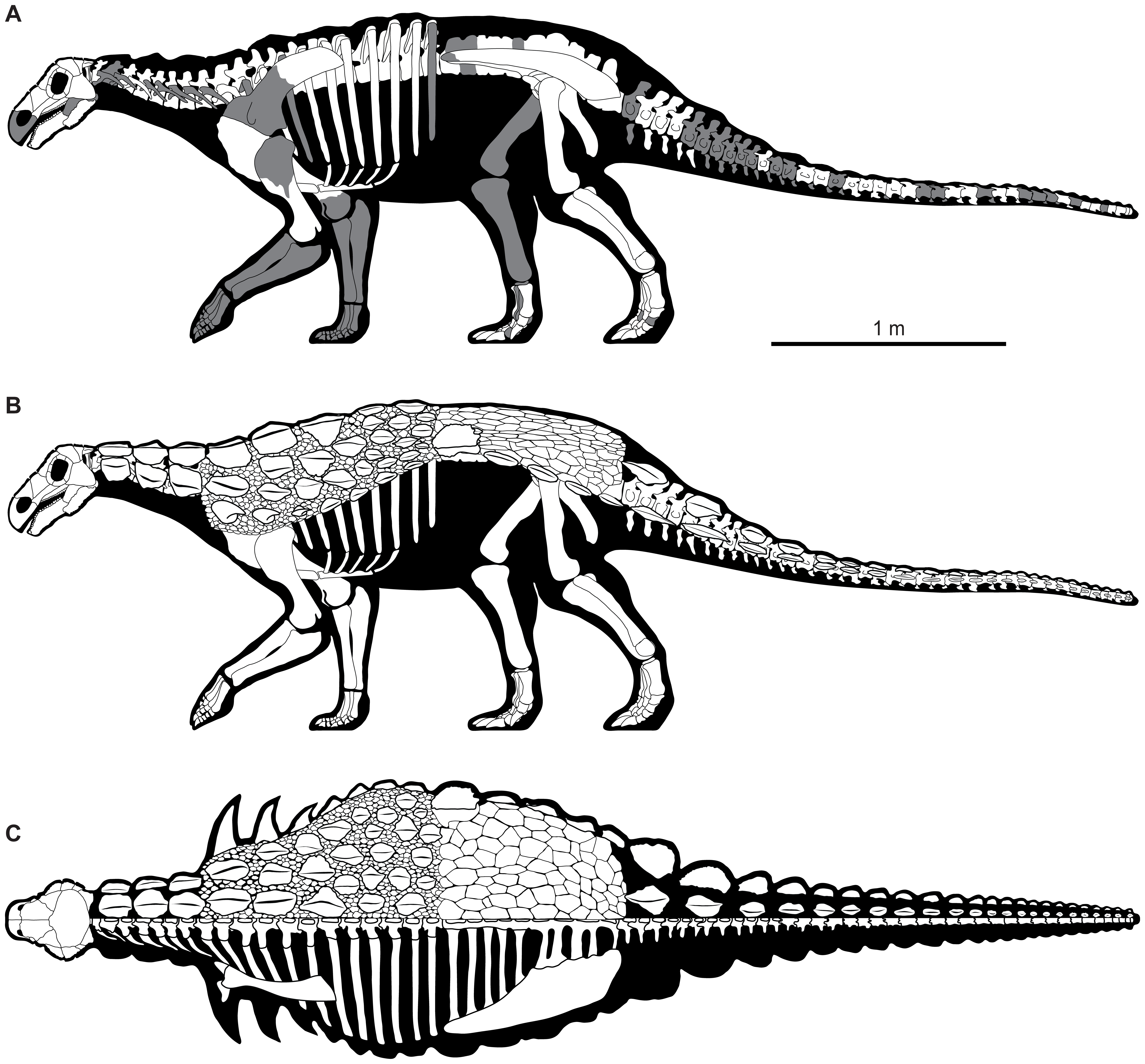 Skeletal reconstruction of Europelta carbonensis n. gen., n. sp. Skeletal reconstruction in: (A) lateral view with unknown parts of the skeleton shaded in gray, (B) lateral view with hypothetical distribution of the armor indicated, and (C) dorsal view with hypothetical distribution of the armor on right side of body indicated.